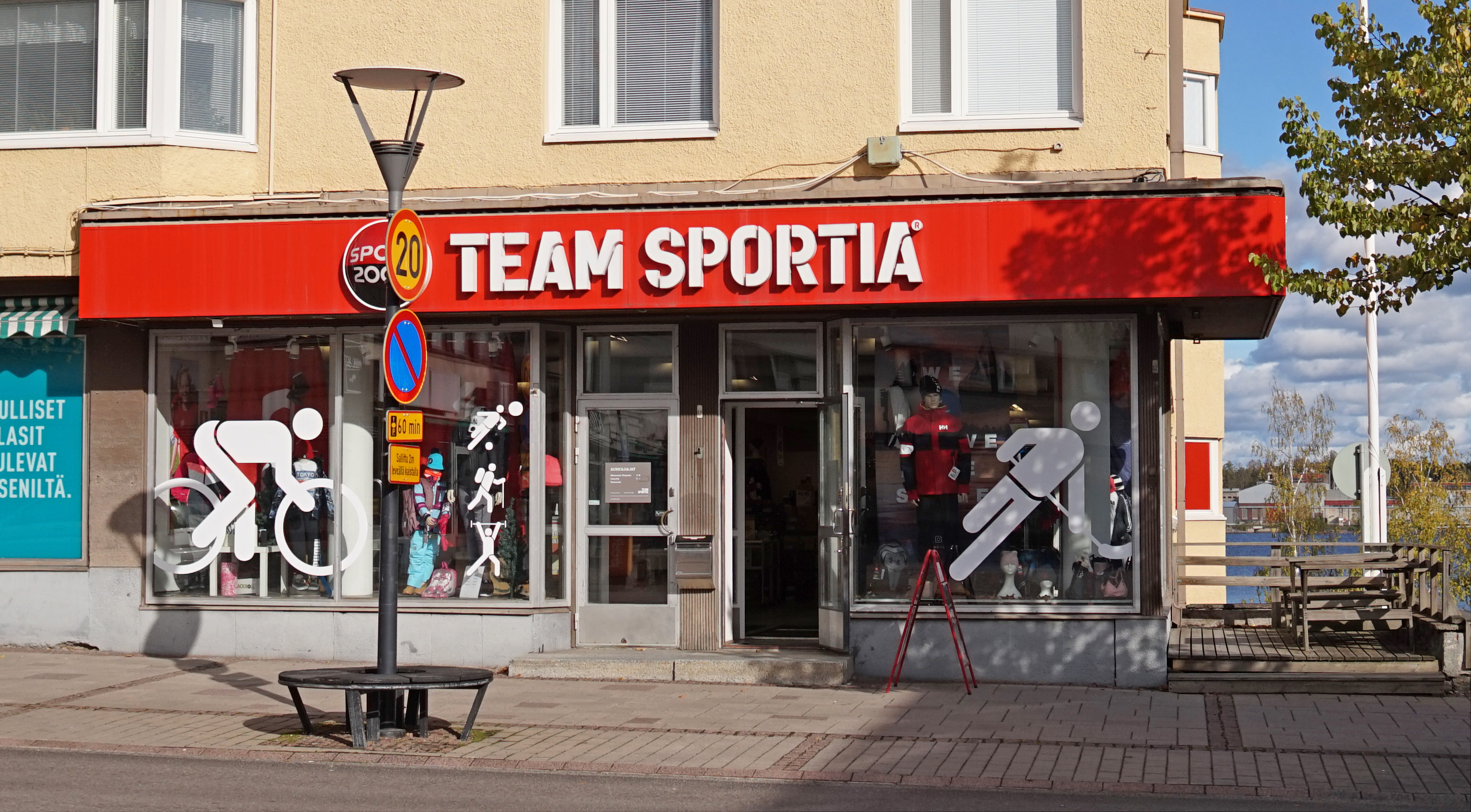 Varkaus, Finland.